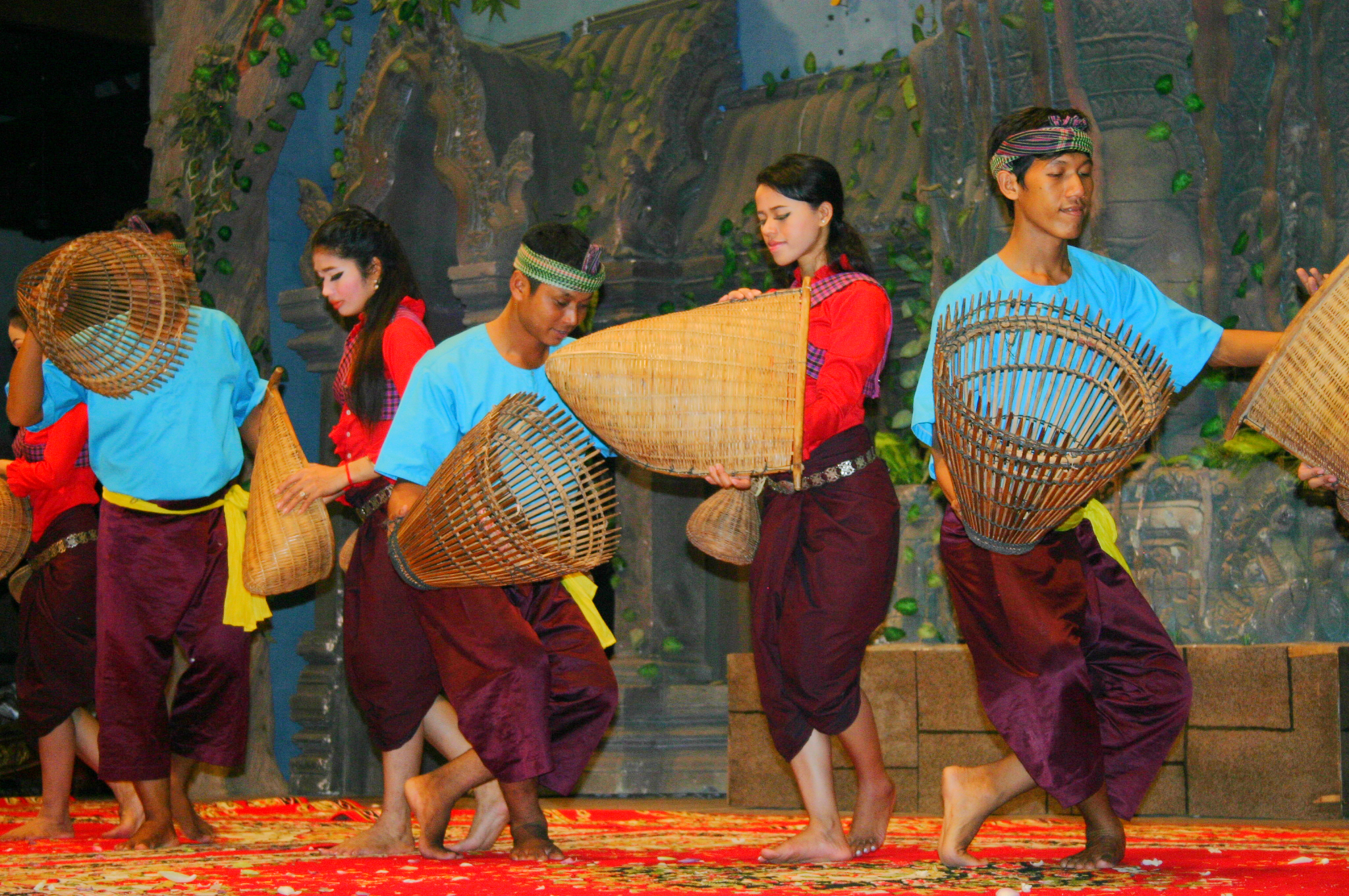 Khmer folk dance